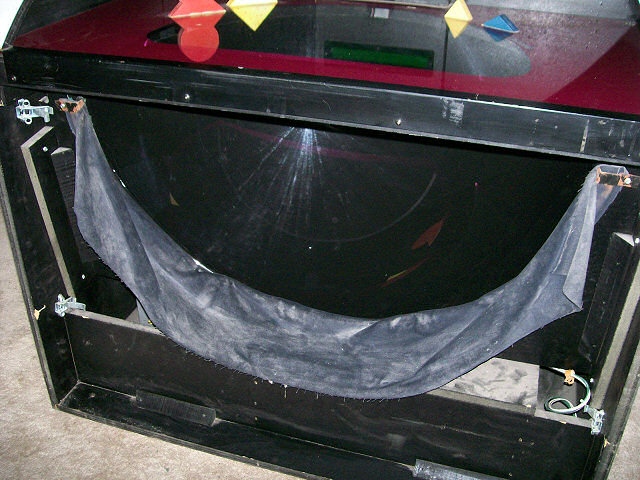 A look at Time Traveler's concave mirror.